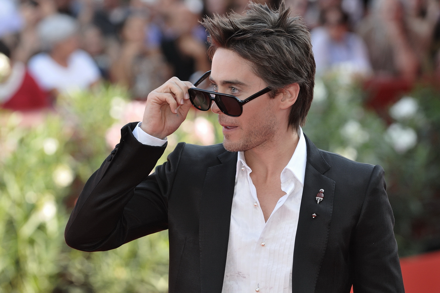 Jared Leto at the 66th Venice International Film Festival.